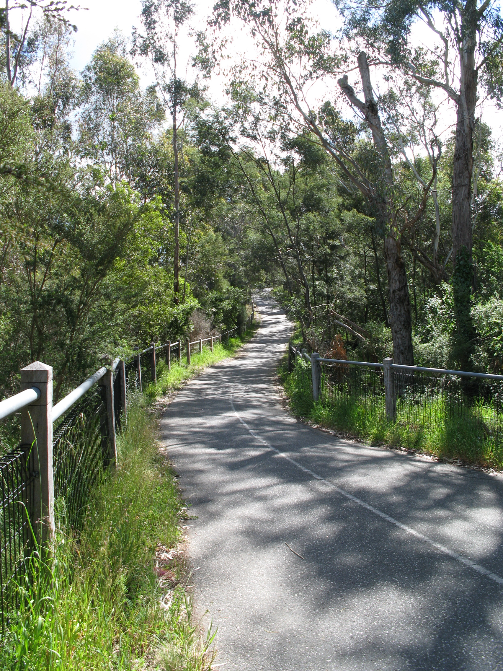 A section of the Koonung Creek Trail west of Blackburn Road. Nick carson took this photo in October 2008.